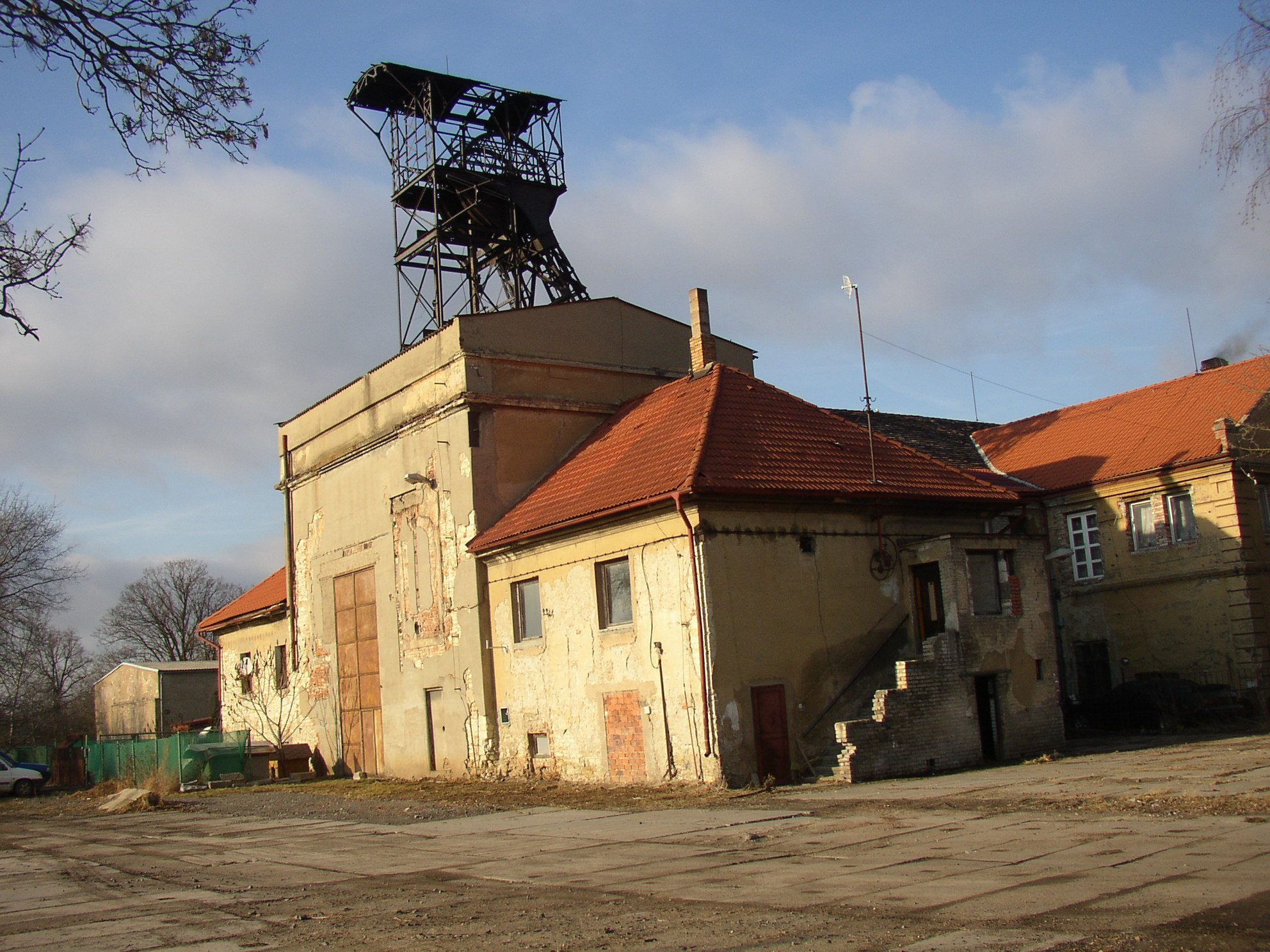 Defunct Michael colliery in Brandýsek, Kladno District, Czech Republic. The 1900s headframe, one of only three preserved in Kladno area, is a listed cultural monument.